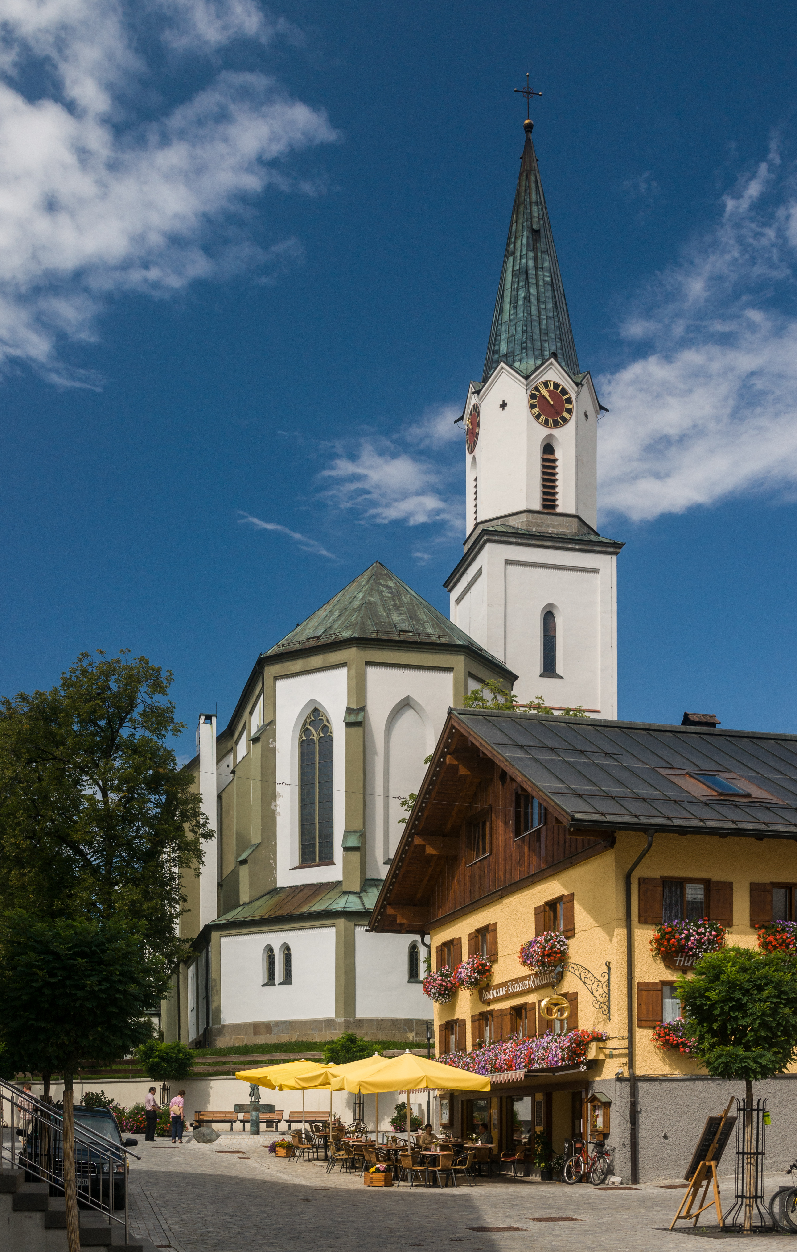 The catholic church St. John the Baptist in Bad Hindelang on a sunny summer day. View from the east of the church.